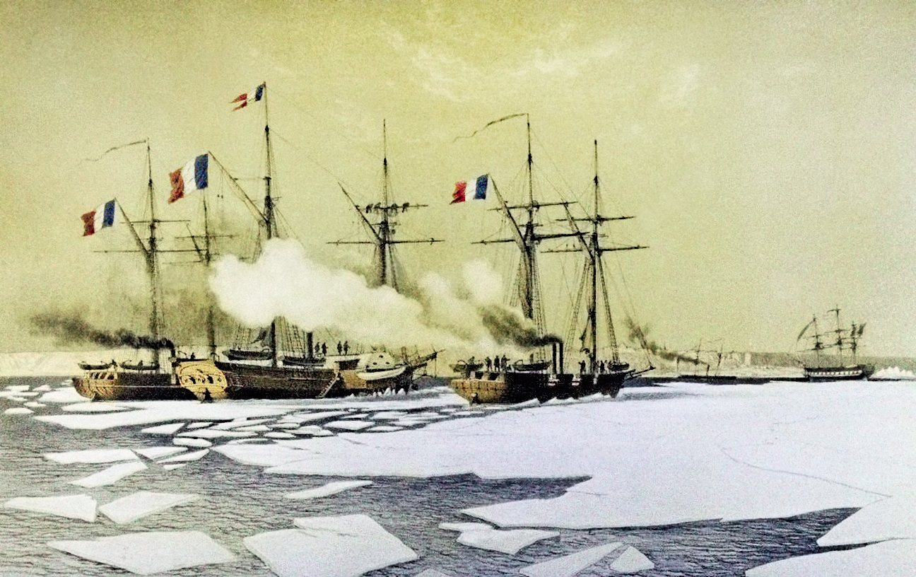 Icebreakers in the Dnieper Estuary open a fairway for Floating Batteries.